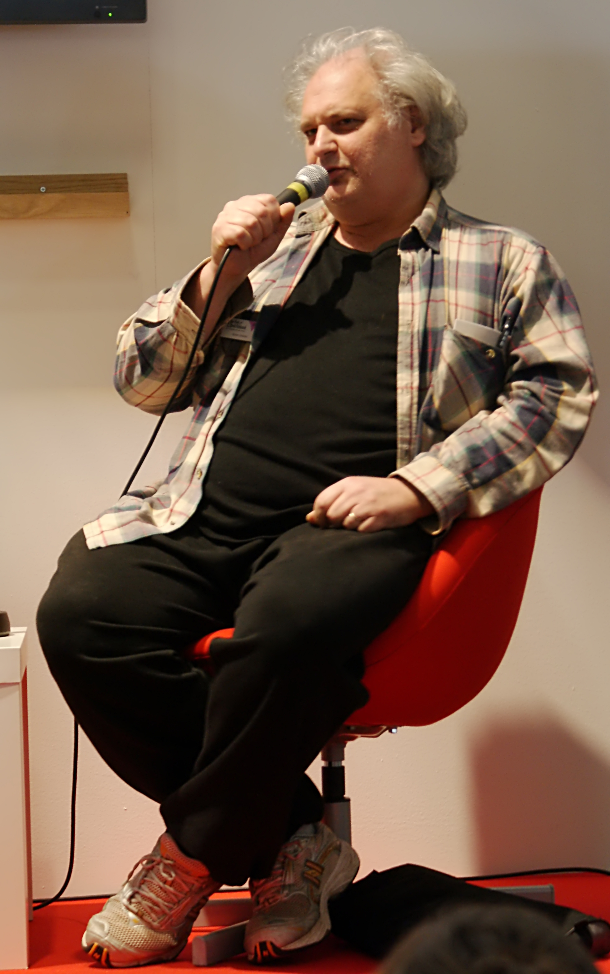 Göran Greider, Swedish journalist.